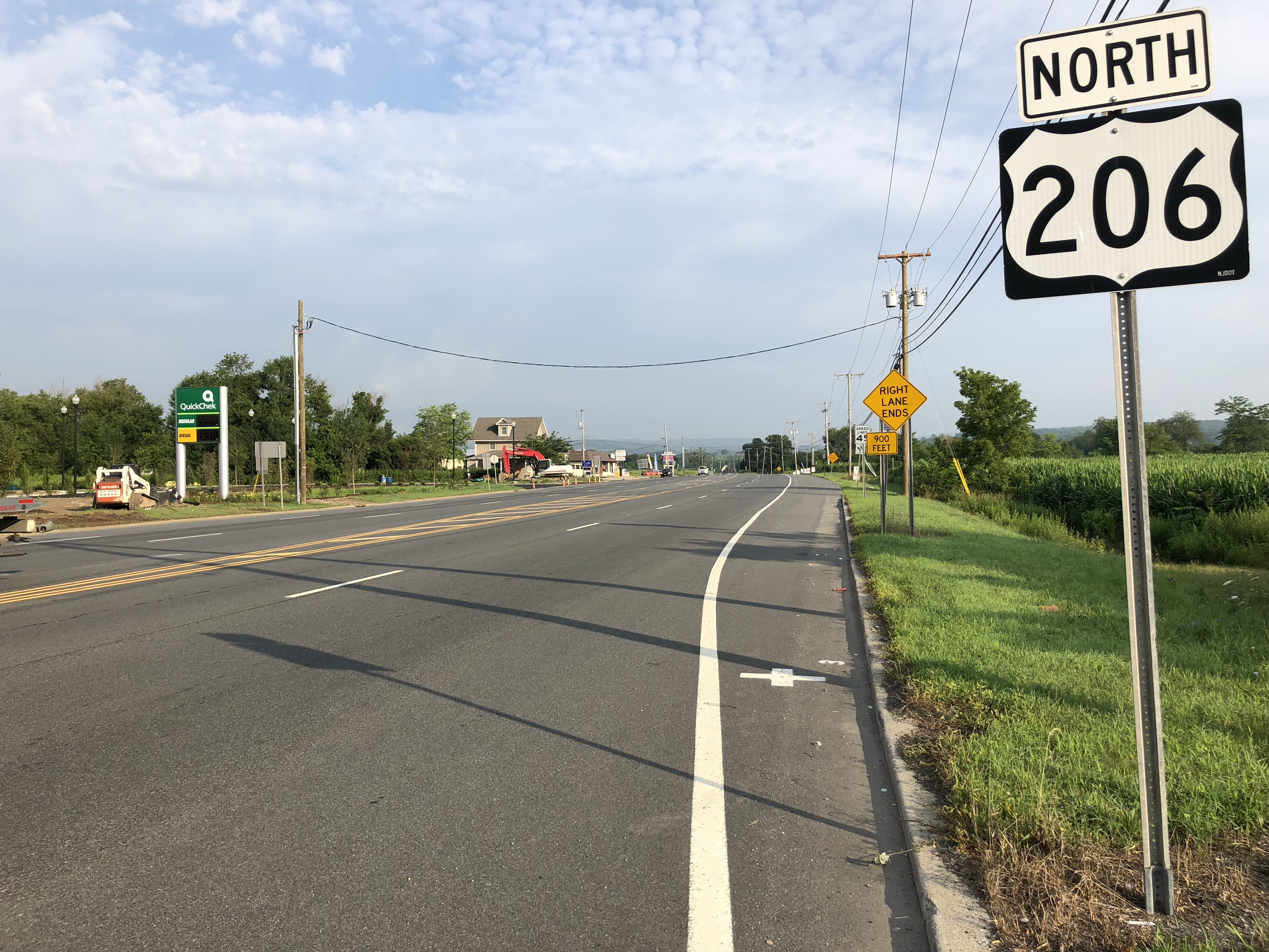 View north along U.S. Route 206 just north of New Jersey Route 15 (Lafayette Road) and Sussex County Route 565 (Ross Corner-Sussex Road) in Frankford Township, Sussex County, New Jersey